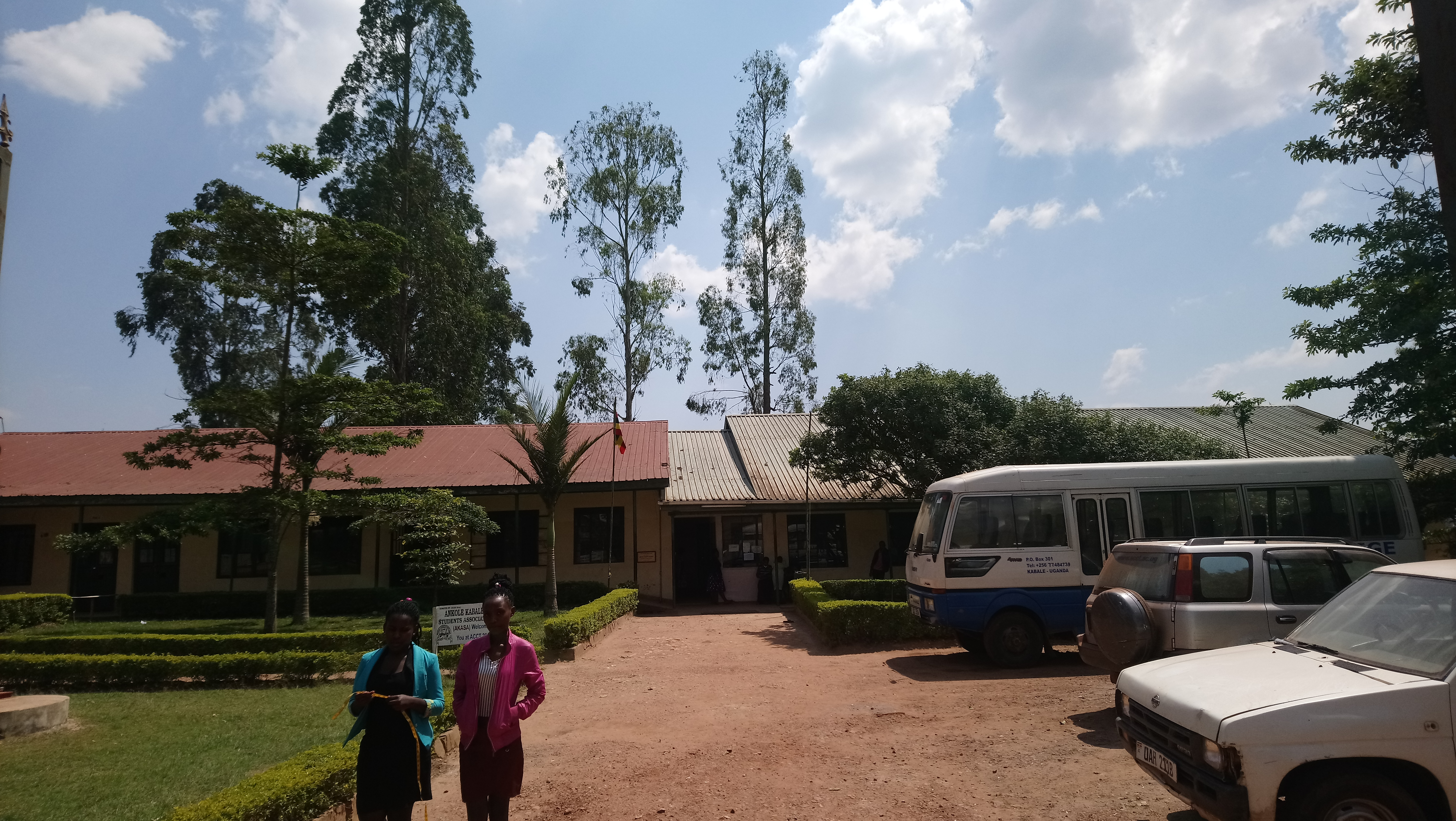 it is located near the main gate opposite the reception.